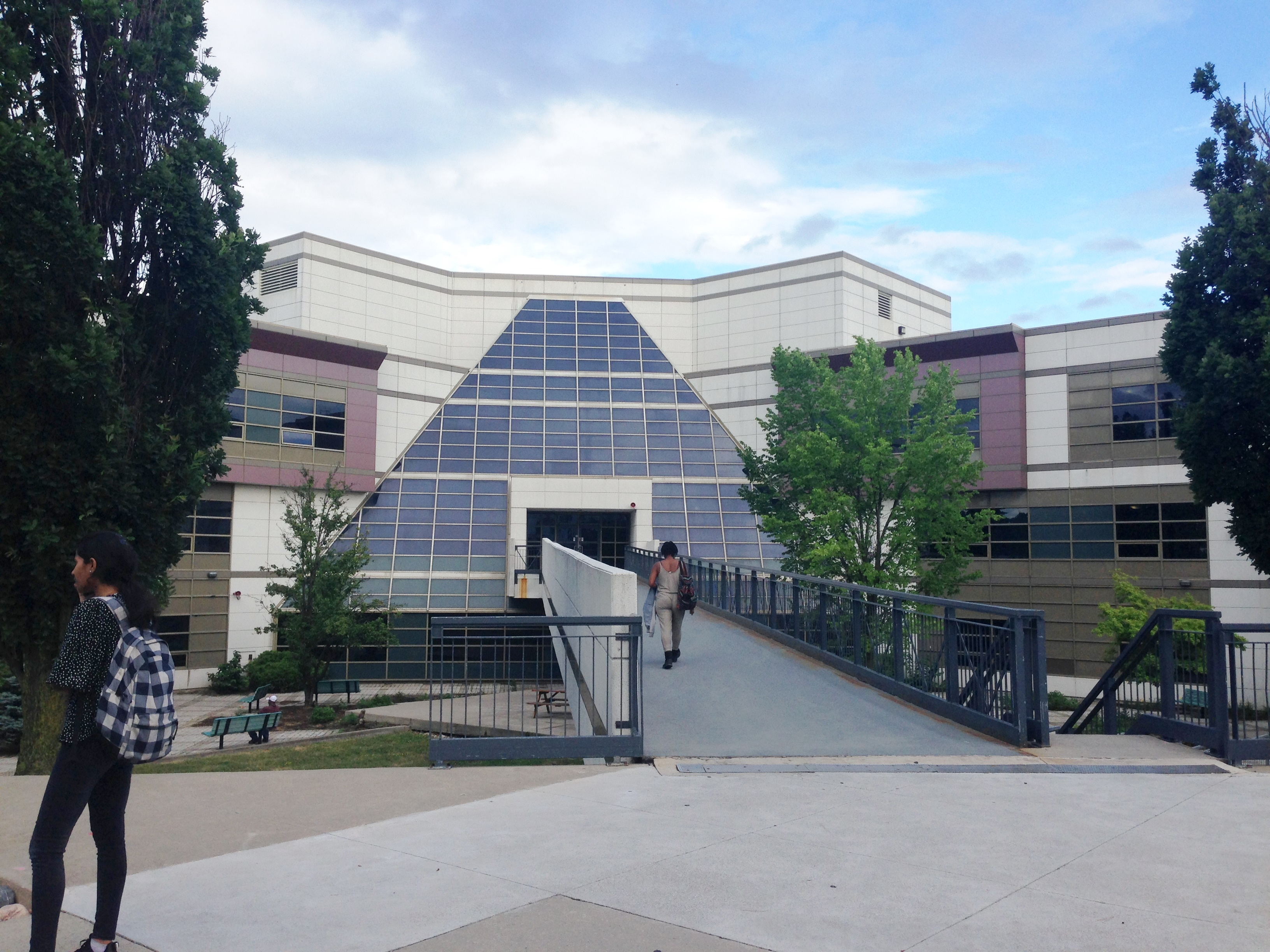 The former Scarborough Centre for Alternative Studies building in Scarborough, Ontario - now owned by Centennial College.